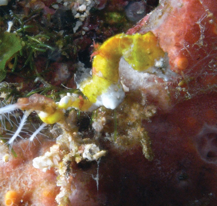 Hippocampus pontohi (host not collected) Timur I, Bunaken (photo S.E.T. van der Meij).